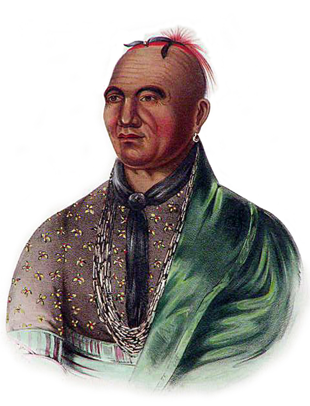 1830s lithograph of Joseph Brant based on the last portrait of Brant, an 1806 oil on canvas painting by Ezra Ames.